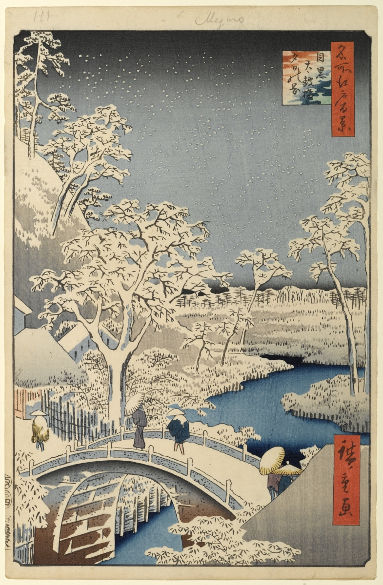 Part of the series One Hundred Famous Views of Edo, no. 111, part 4: Winter.